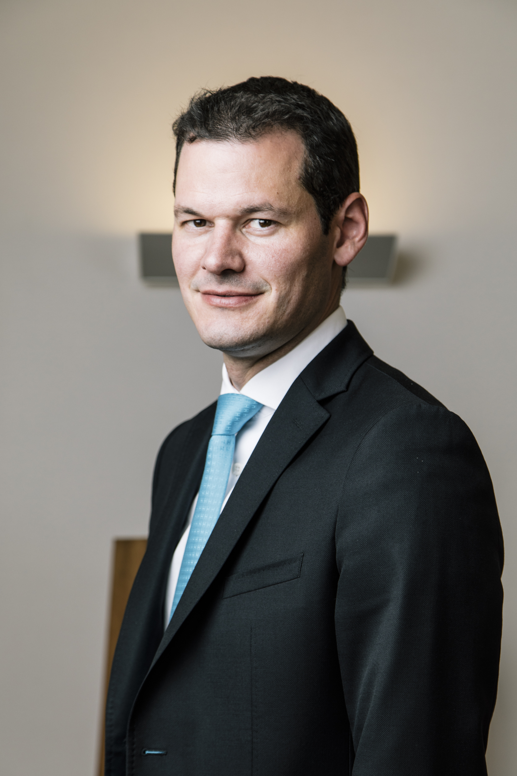 Geneva, 4 july 2017. Pierre Maudet member of swiss Liberal Radical Party, State councelor of the Department of Security and Economy.